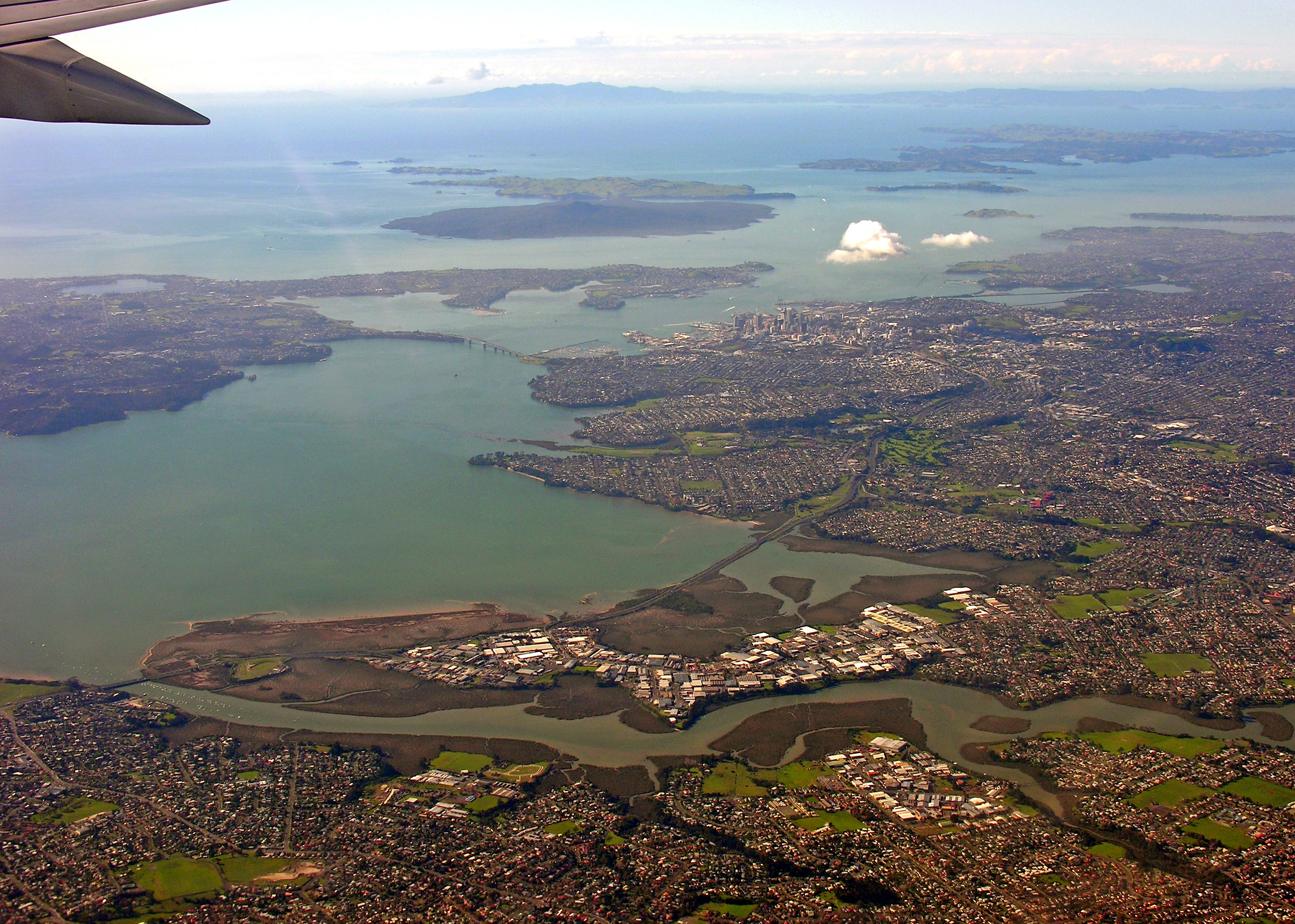 An eastwards view over the Waitematā Harbour, New Zealand. Waitakere City below, North Shore City at the left, Auckland City and Rangitoto Island in the middle distance, with Great Barrier Island and the Coromandel visible in the far distance in the Hauraki Gulf. Taken en route from Auckland International to Port Vila.